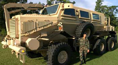 From